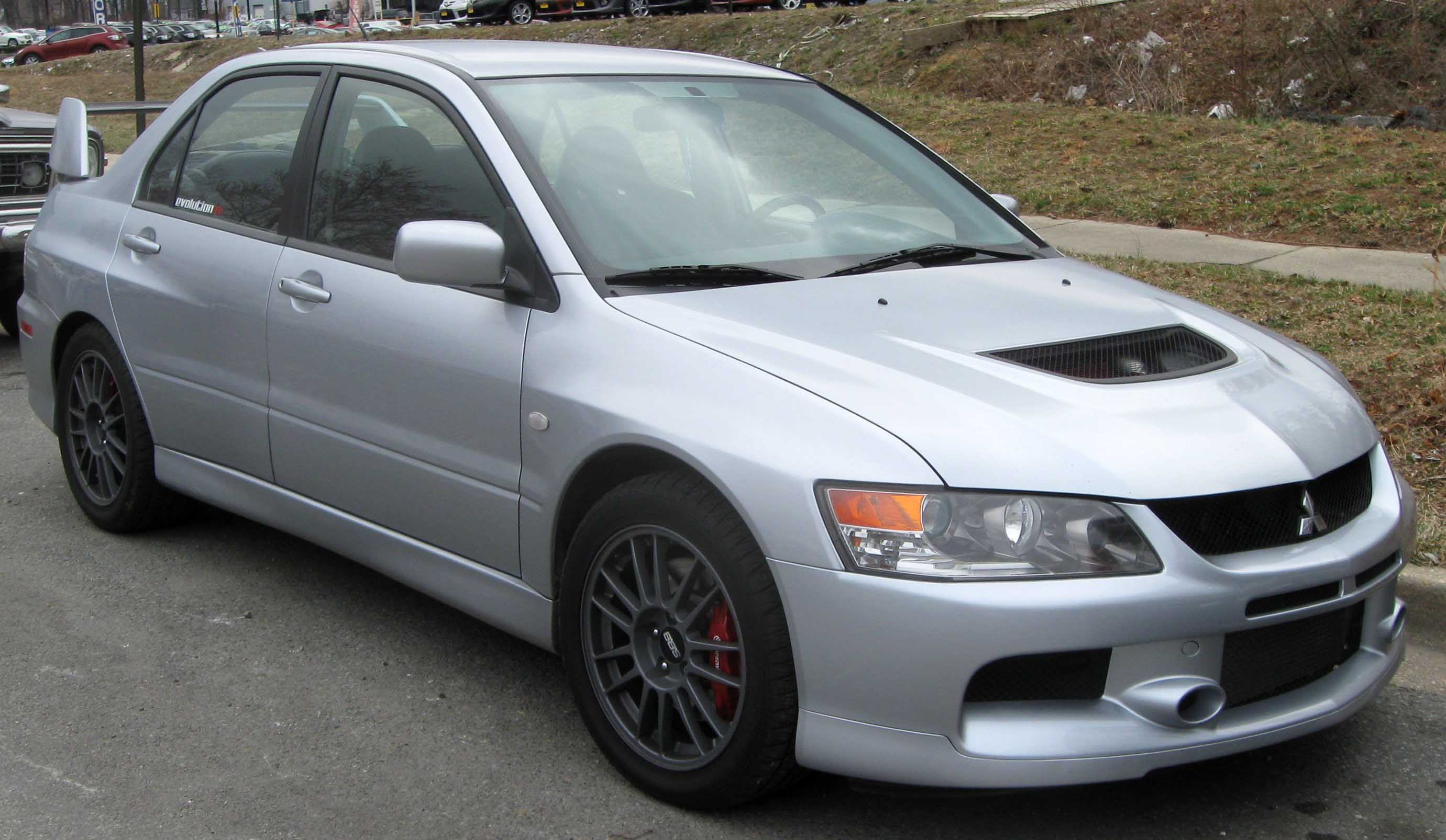 Mitsubishi Lancer Evolution photographed in Silver Spring, Maryland, USA.